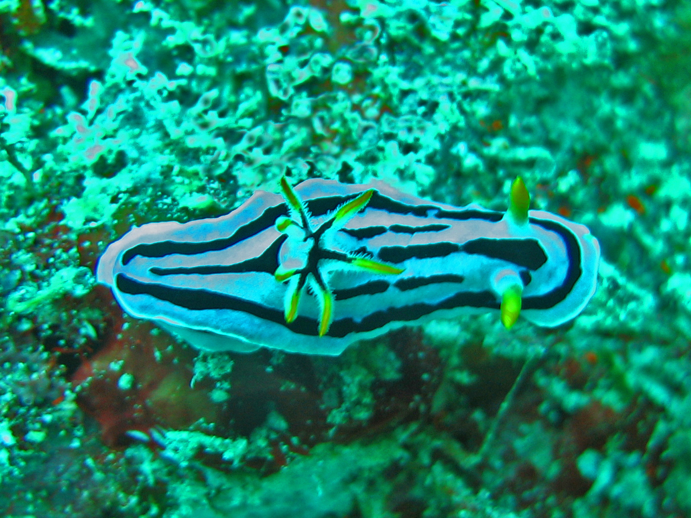 Chromodoris boucheti displaying the characteristic black markings on the inner edges of its gills